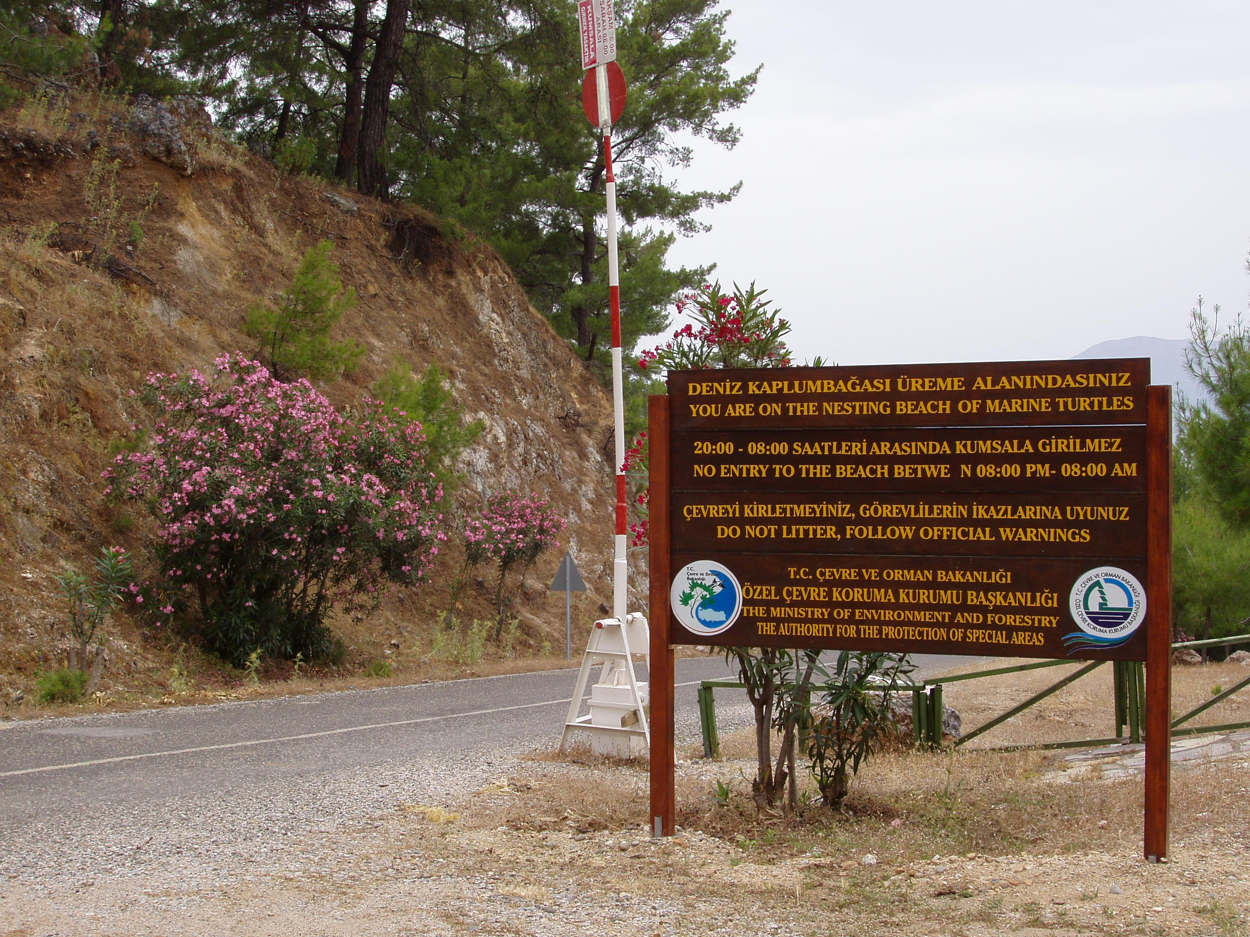 Regulations at Iztuzu Beach